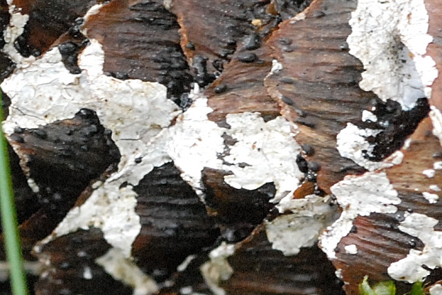 Athelia bombacina from Commanster, Belgium. If you think this is a different taxon, please contact James Lindsey.